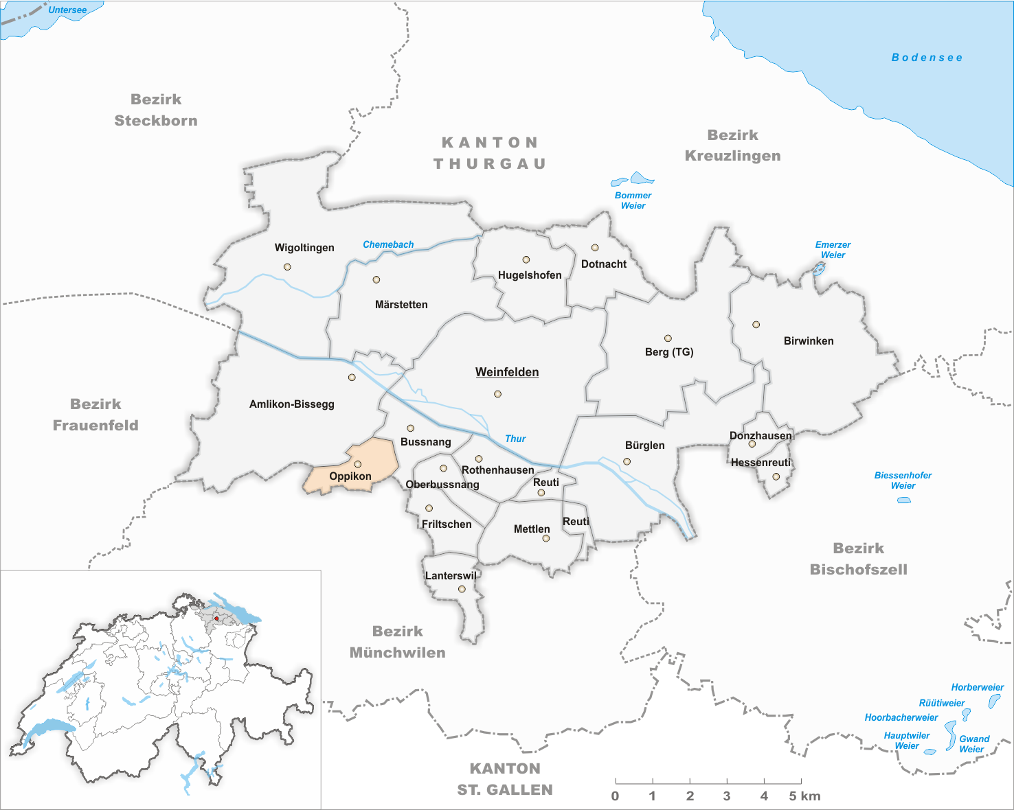 Municipality Oppikon